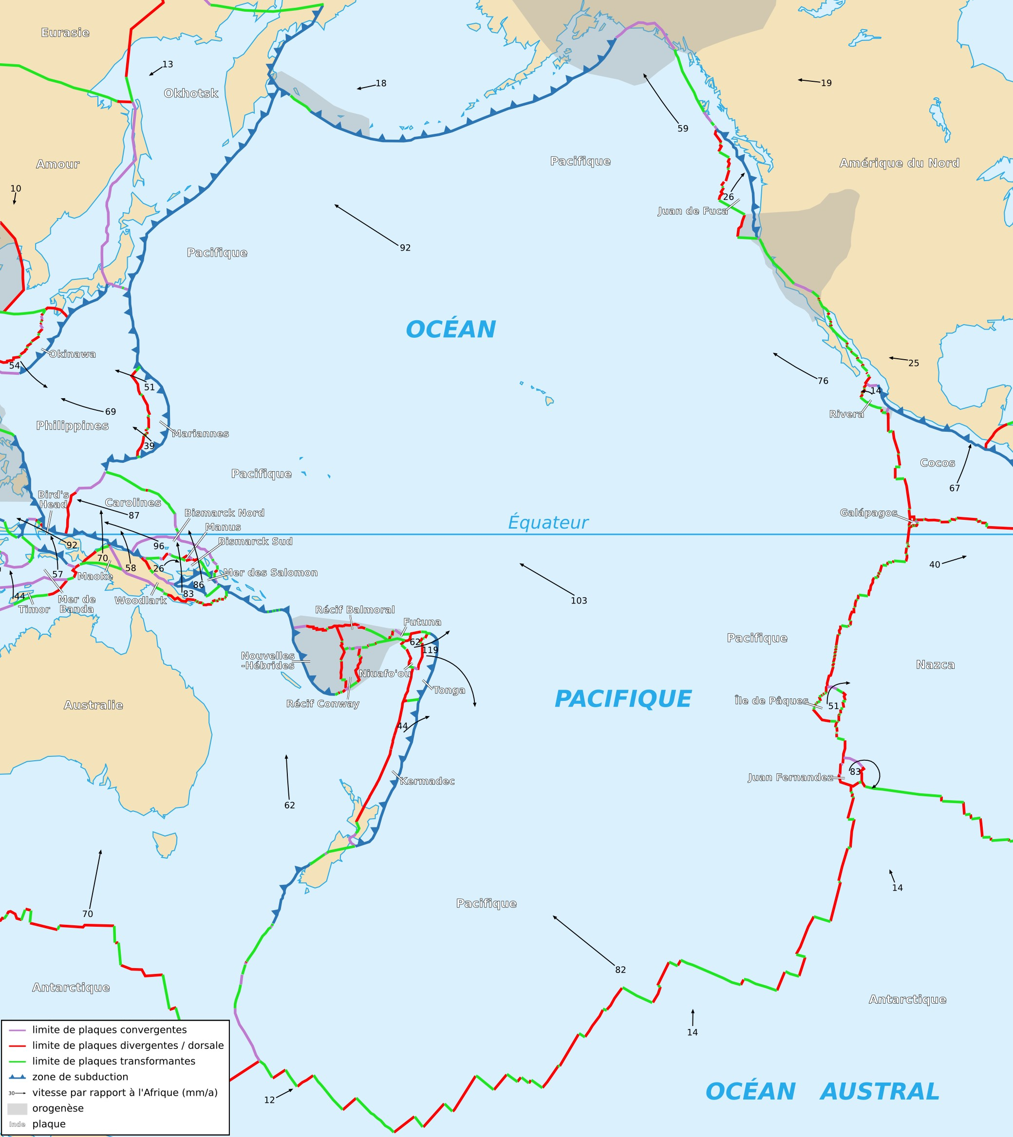 Map of the Pacific Plate